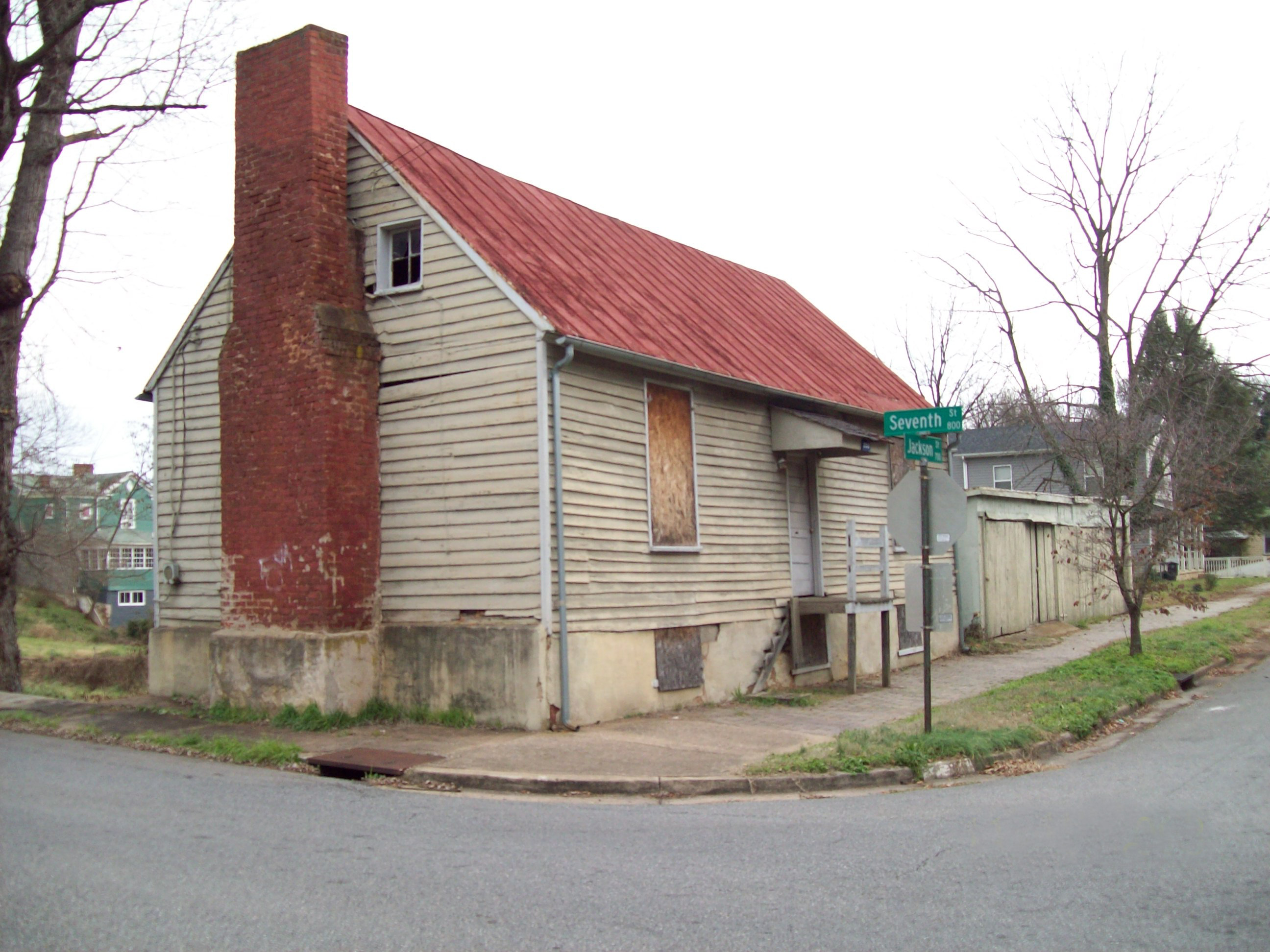 Lynch's Brickyard House, Lynchburg VA, November 2008